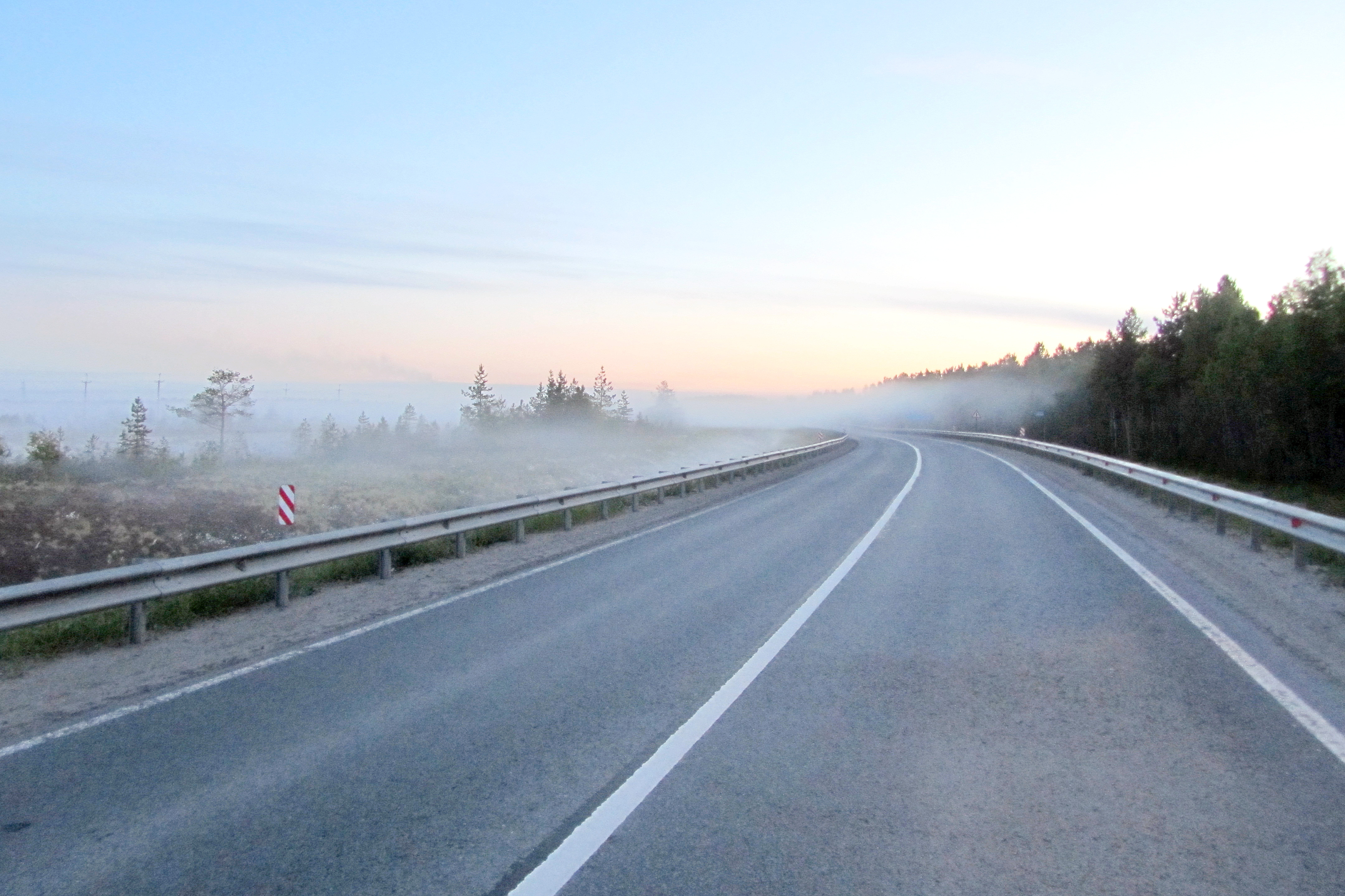 M8 highway (Russia). Fog. White night. Photo by Alexey Schekinov.